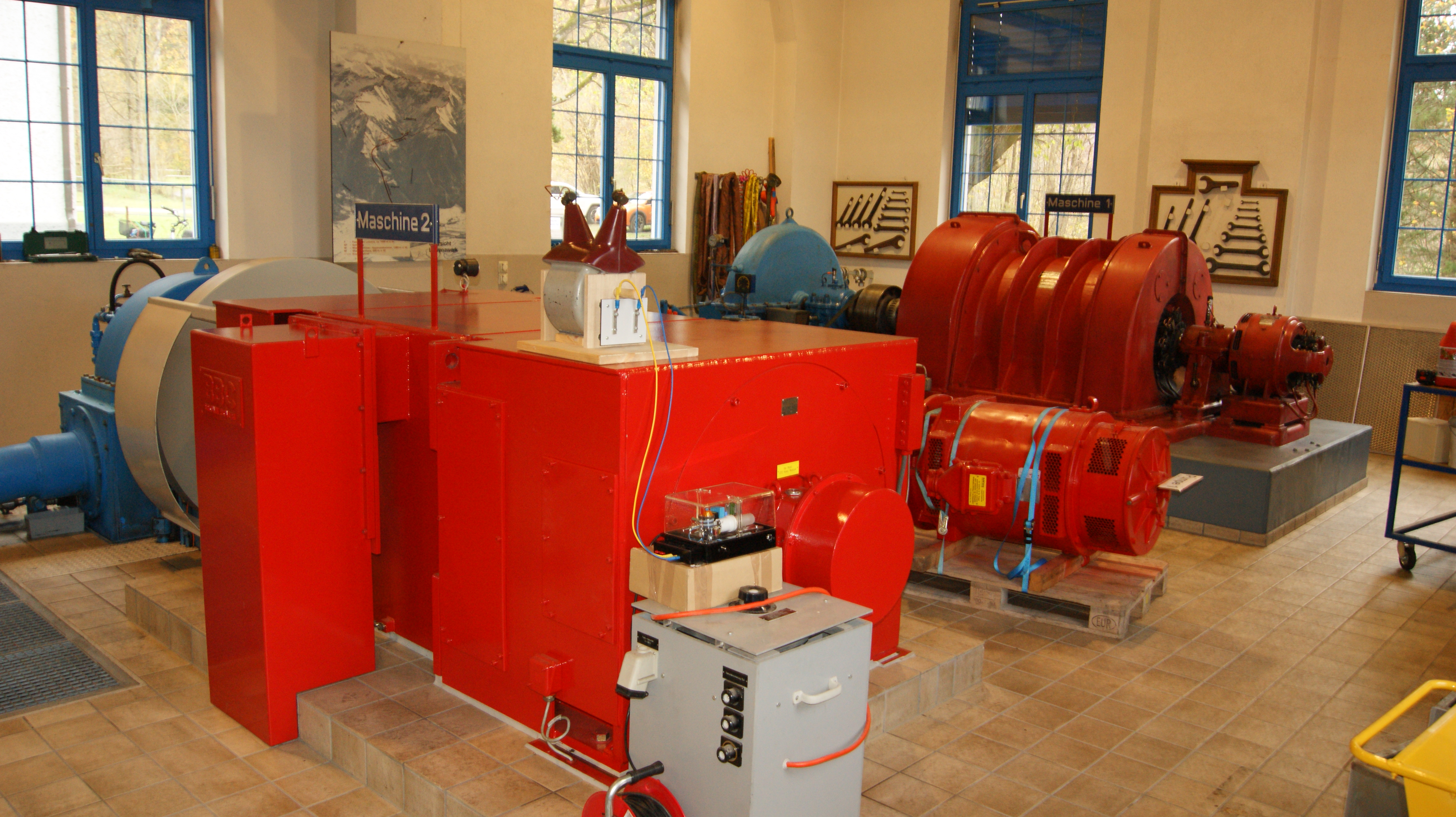 Lawena Power Plant, Triesen, Principality of Liechtenstein, machine set 1 and 2.